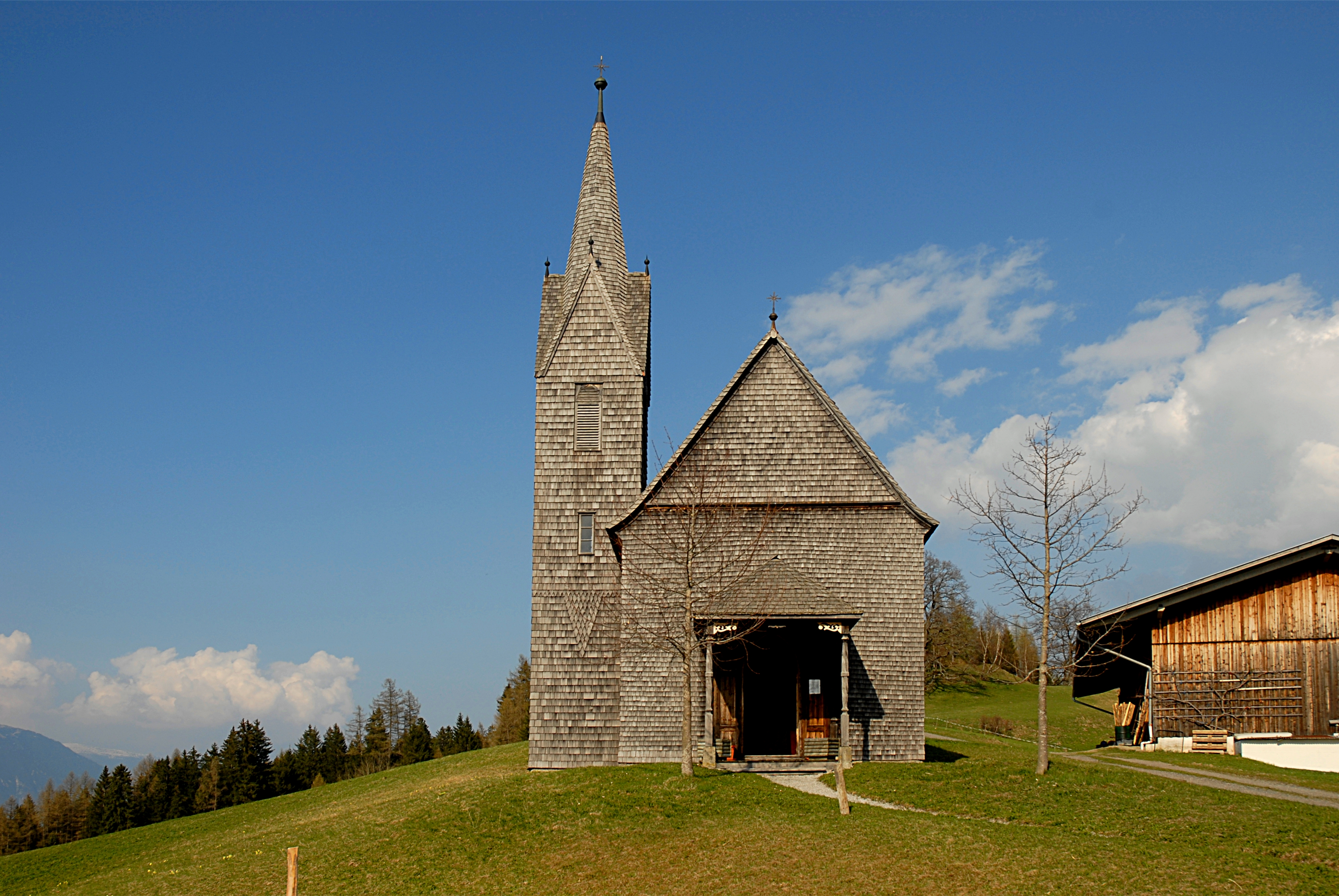 The chapel of Windegg near Tulfes, Tyrol, Austria